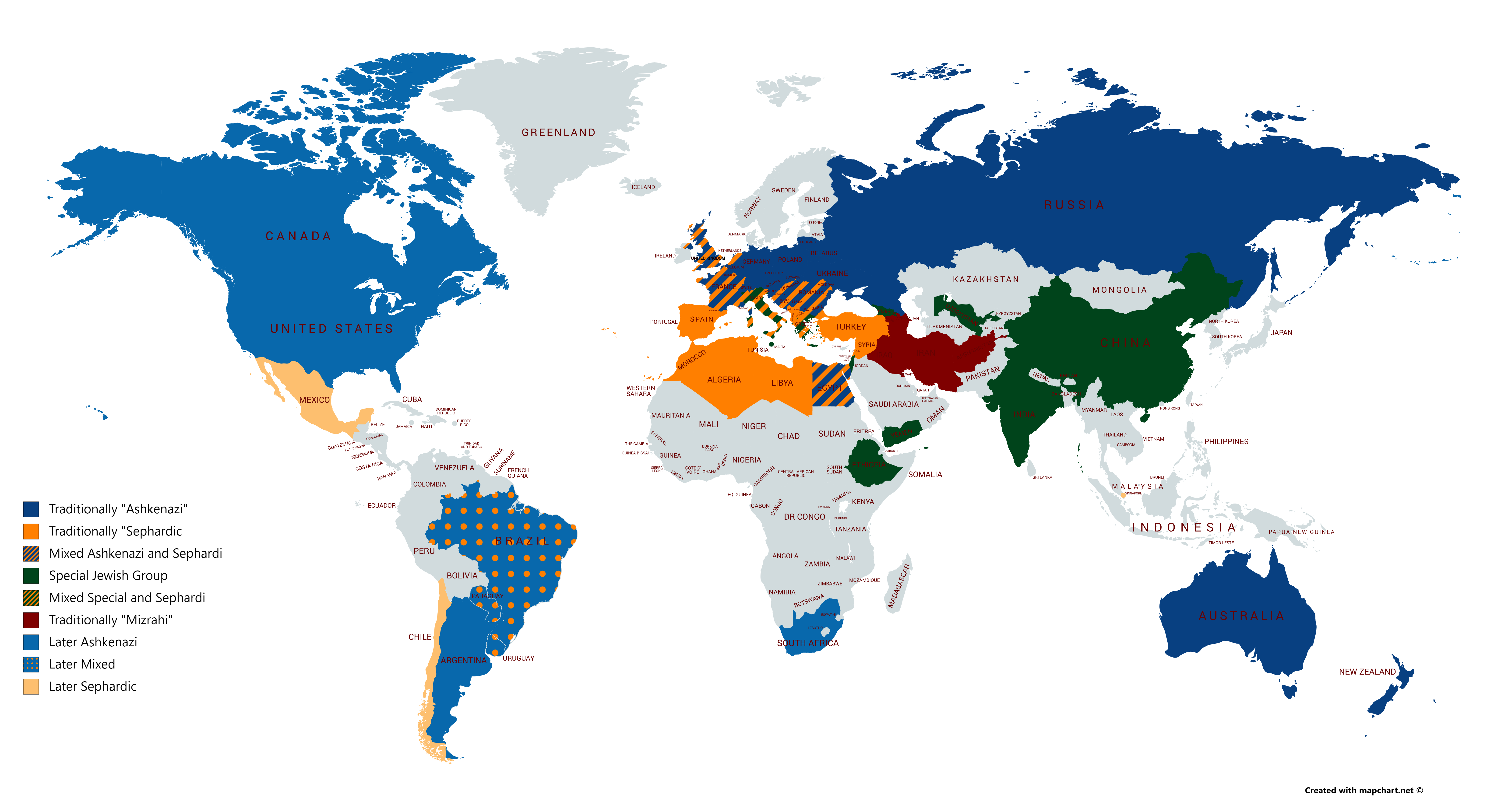 A map of Jewish ethnic divisions split Ashkenazi, Sephardi, Mizrahi, and isolated.